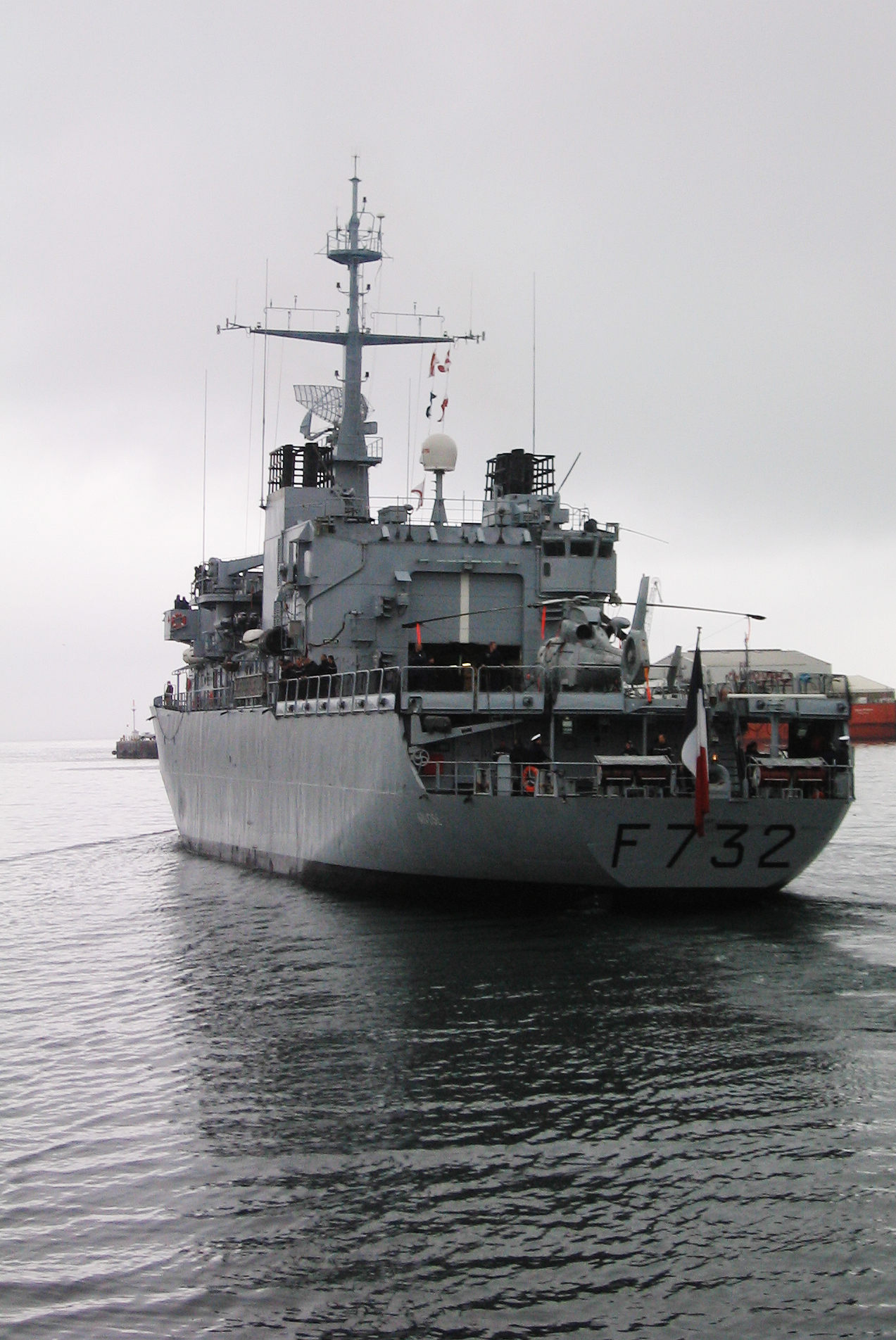 Stern of Nivôse, showing the Panther helicopter. Departing Cape Town, South Africa.